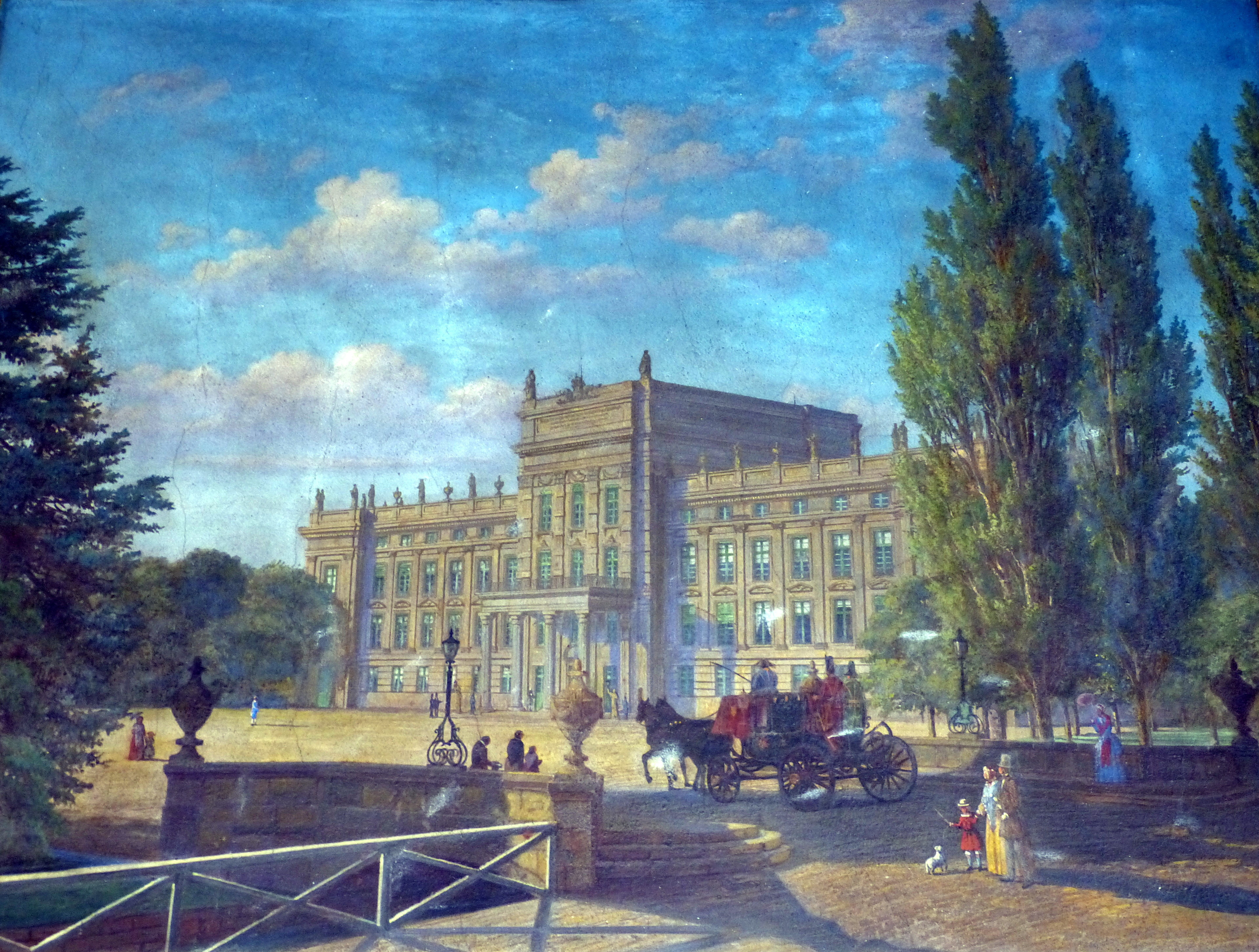 Schwerin Castle ( Mecklenburg ). Gallery of palaces: Painting of Ludwigslust palace by Friedrich Jentzen.